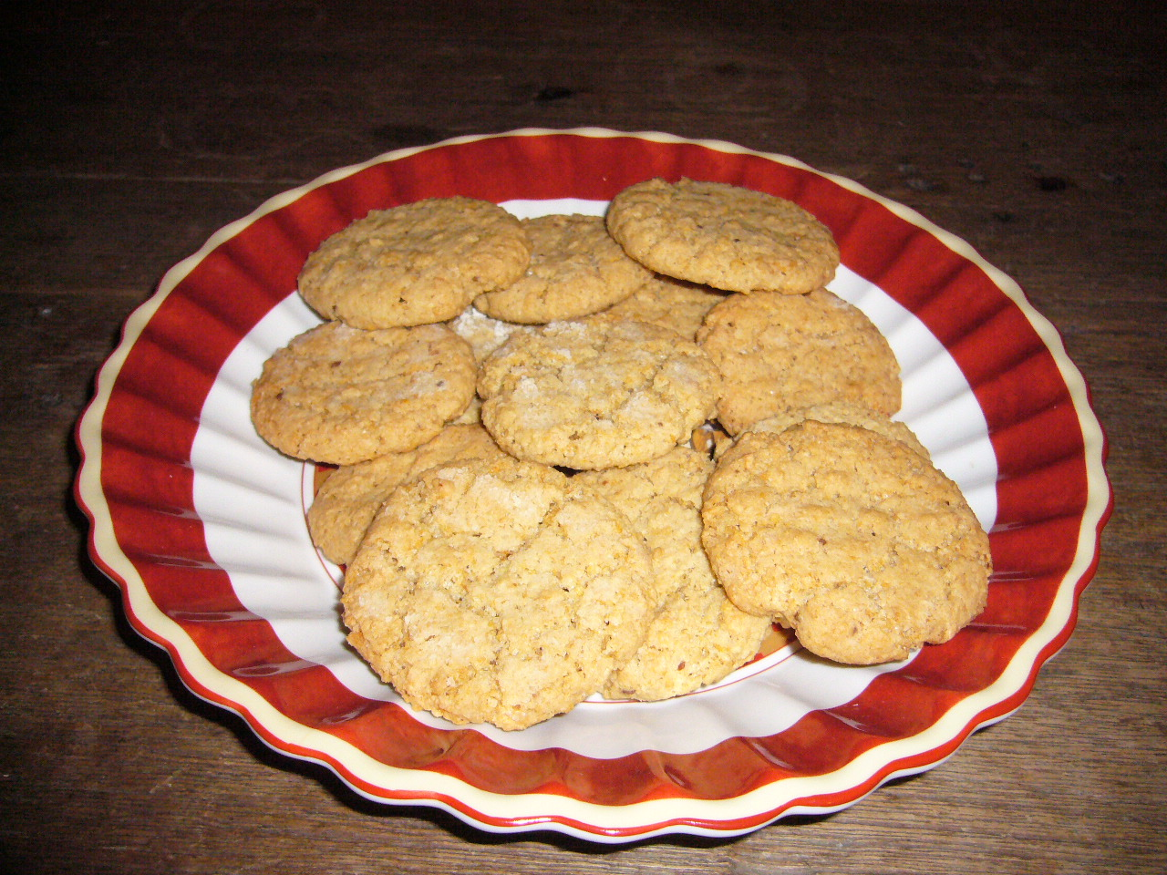 Oatmeal and cornflakes Christmas cookies